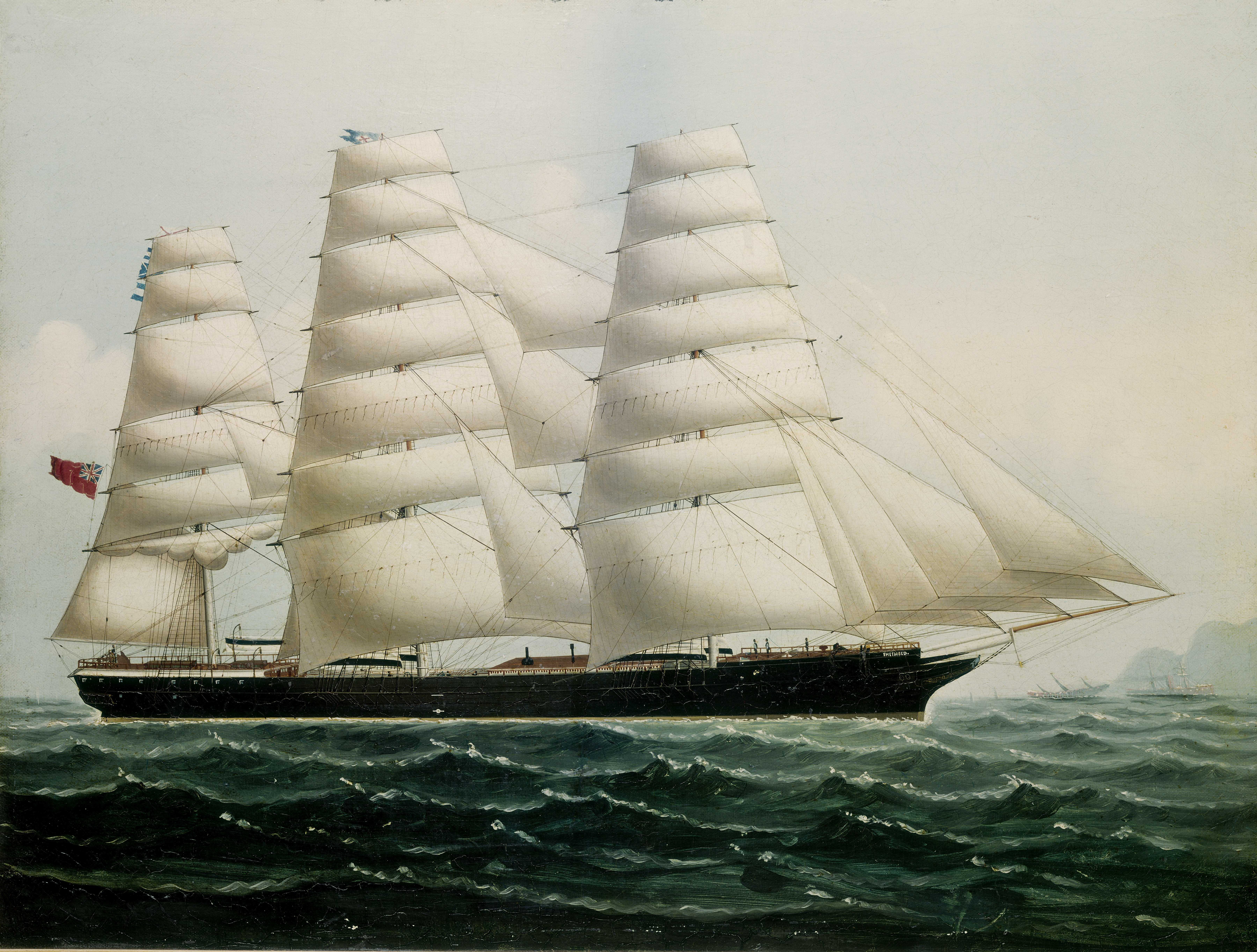 The ship The Tweed Ship portrait. Oil painting, possibly by a Chinese artist, entitled 'The ship The Tweed'. The painting depicts the vessel when converted to sail.